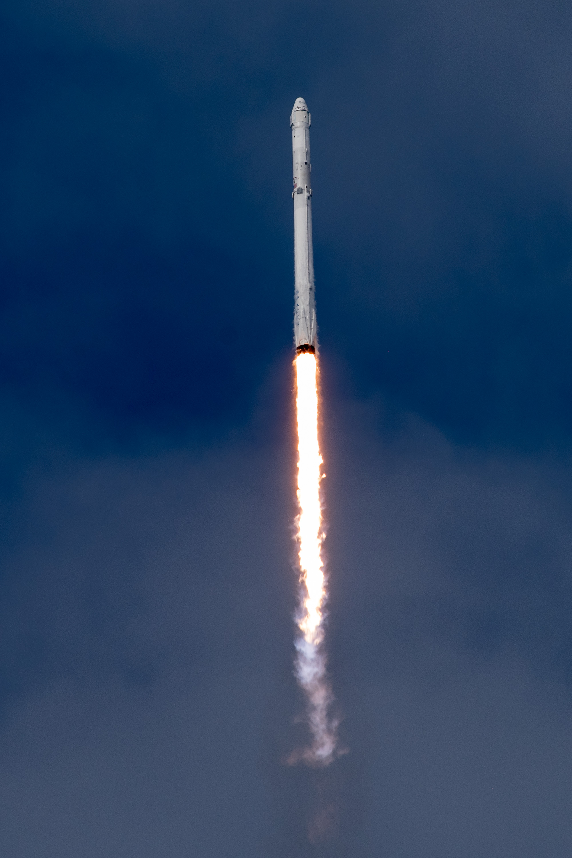 Falcon 9 shortly after the lift-off